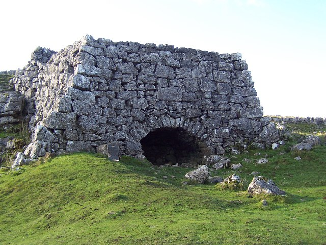 Lime Kiln, Old Pasture. Abandoned Lime Kiln passed on the Dales Way, 4km north of Grassington.